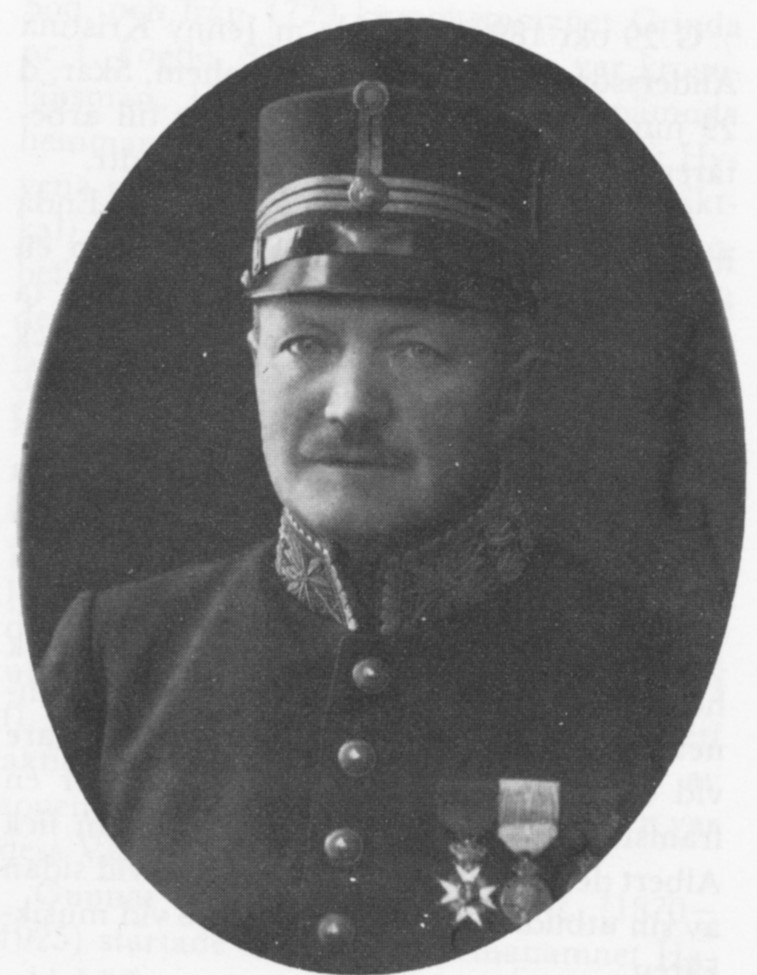 Swedish army NCO, clarinetist and composer Gustaf Albert Löfgren (1872-1930)